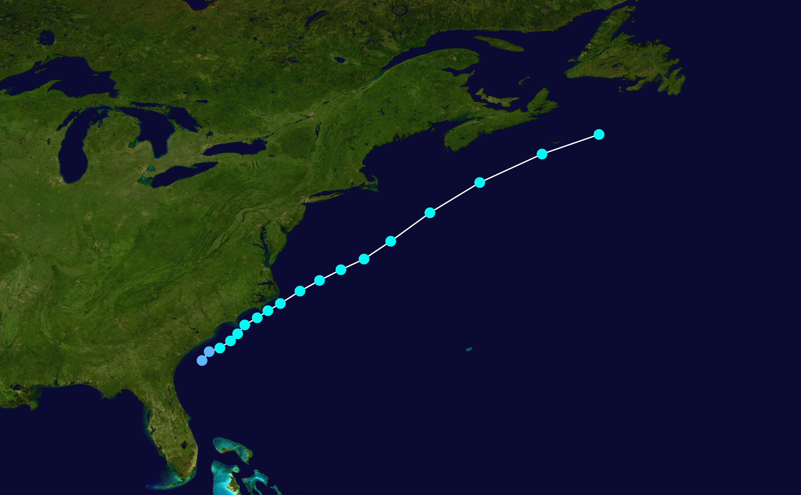 Track map of Tropical Storm Cristobal of the 2008 Atlantic hurricane season. The points show the location of the storm at 6-hour intervals. The colour represents the storm's maximum sustained wind speeds as classified in the Saffir–Simpson scale (see below), and the shape of the data points represent the nature of the storm, according to the legend below. Saffir–Simpson scale Tropical depression≤38 mph≤62 km/h Category 3111–129 mph178–208 km/h Tropical storm39–73 mph63–118 km/h Category 4130–156 mph209–251 km/h Category 174–95 mph119–153 km/h Category 5≥157 mph≥252 km/h Category 296–110 mph154–177 km/h Unknown Storm type Tropical cyclone Subtropical cyclone Extratropical cyclone / Remnant low / Tropical disturbance / Monsoon depression